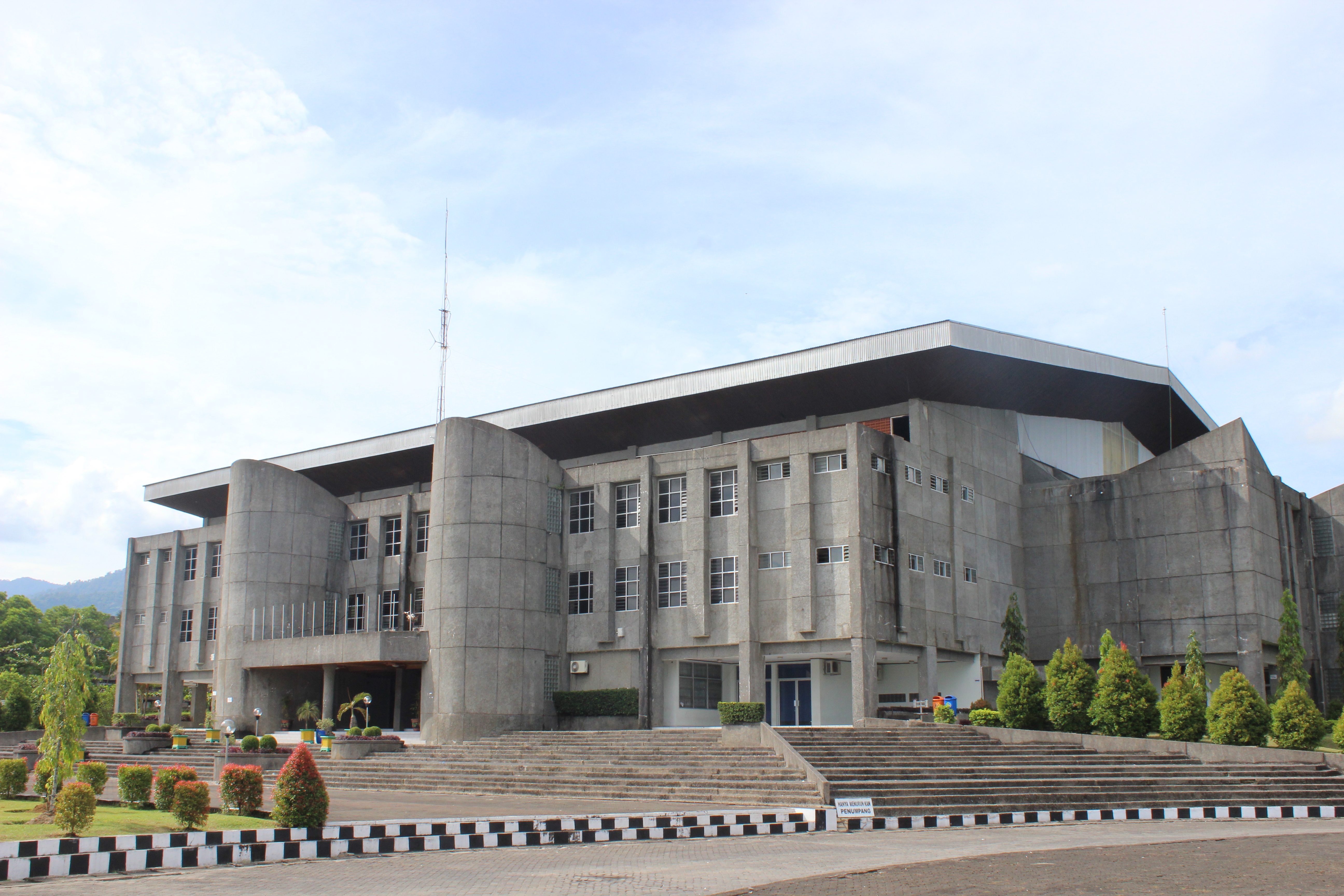 The auditorium of Andalas University in Limau Manih, Padang